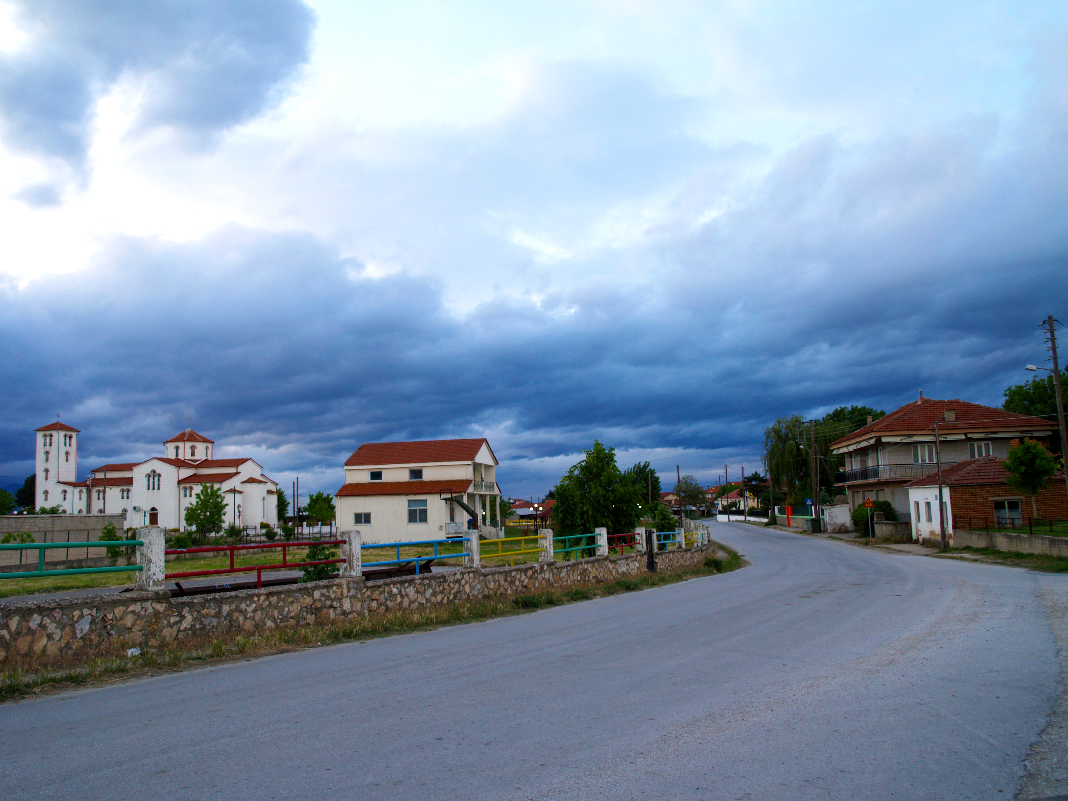 Church of village Pesotchnitsa, today Amohori, Greece.